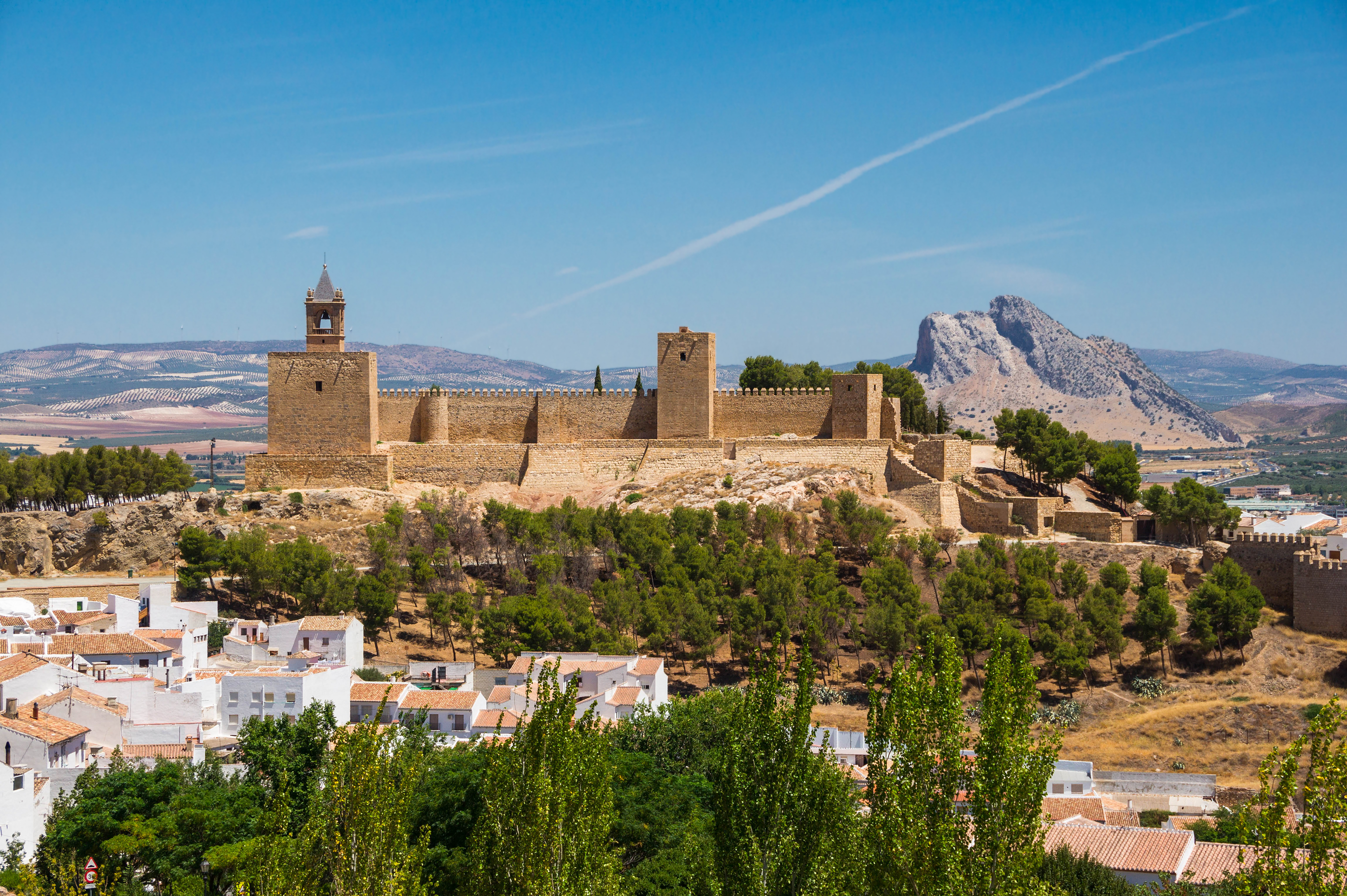 The Alcazaba (fortress) of Antequera, Andalusia, Spain